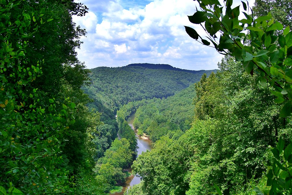 View from atop the End Of The World cliffs, near Ivydale, WV, USA